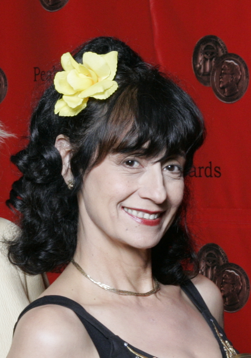 Kathleen Hudson, Rosie Flores, Suraya Mohamed and Lex Gillespie 67th Annual Peabody Awards Luncheon Waldorf=Astoria Hotel New York, NY USA June 16, 2008